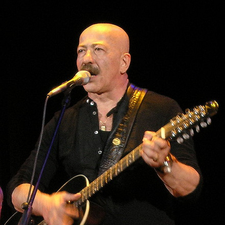 Alexander Rosenbaum (born September 13, 1951 in Leningrad, Soviet Union) is a Soviet and Russian bard from Saint Petersburg.